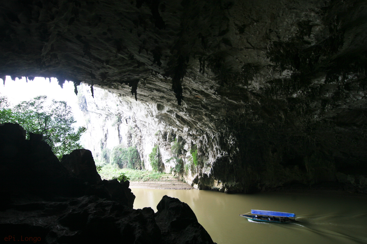 Puông Cave in Bac Kan Province, Vietnam.